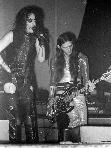 Alice Cooper Band 1972. Township Auditorium, Columbia, South Carolina.